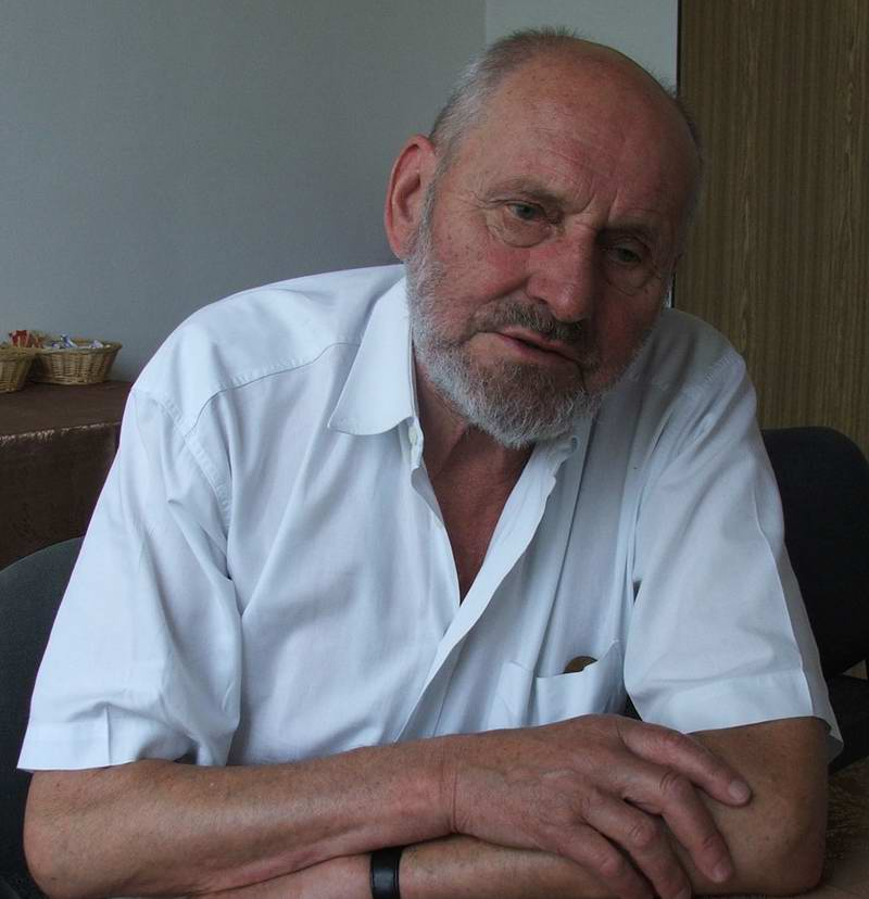 Karel Kukal - former political prisoneer of Czechoslovak communist goverment in 2006.